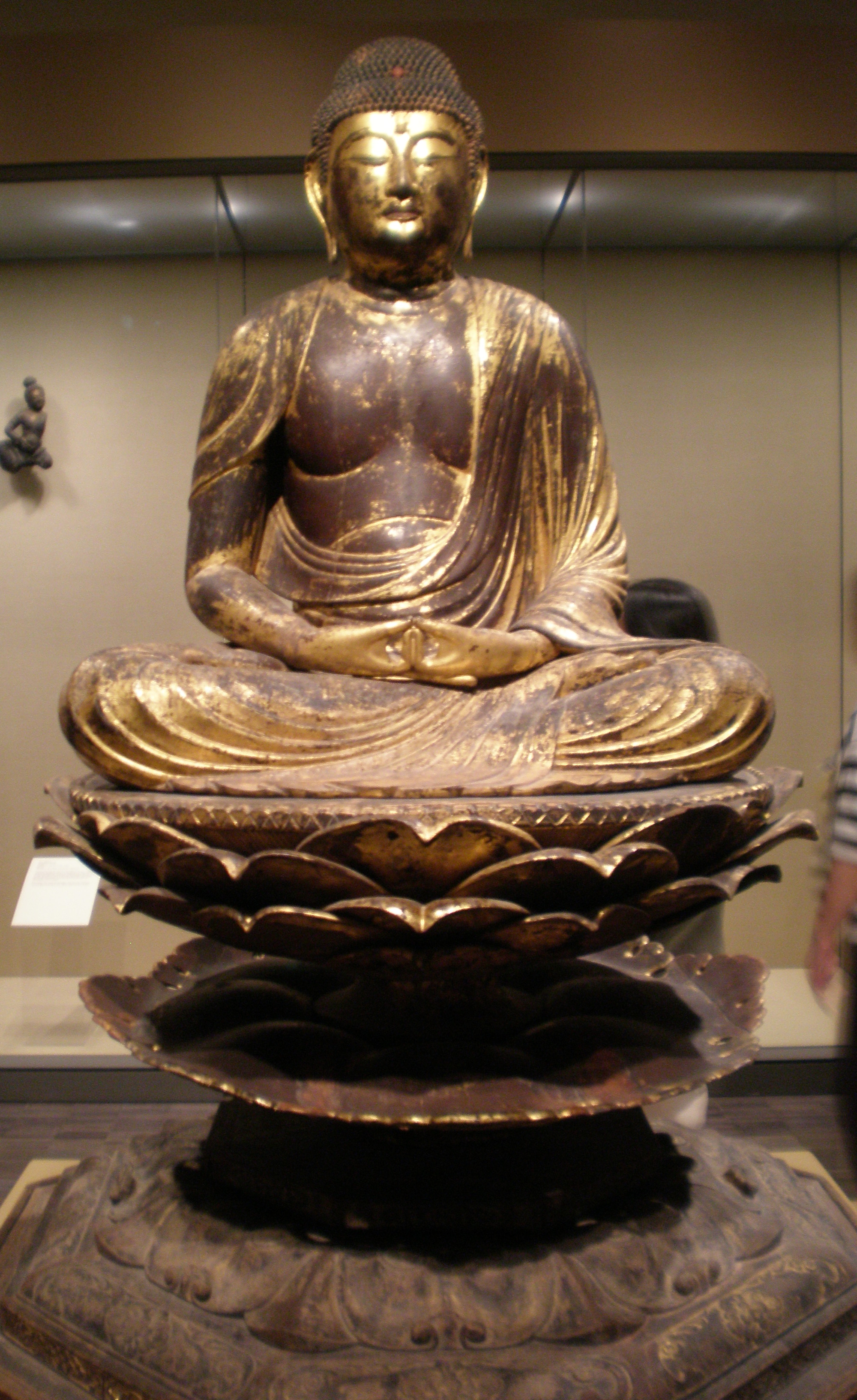 Lacquered and gilt wooden seated Amitabha buddha from Japan, Heian period (794-1185). On display at the Asian Art Musem of San Francisco. B60S10+ See also File:Seated Amitabha rear SF Asian Art Museum B60S10+.JPG.